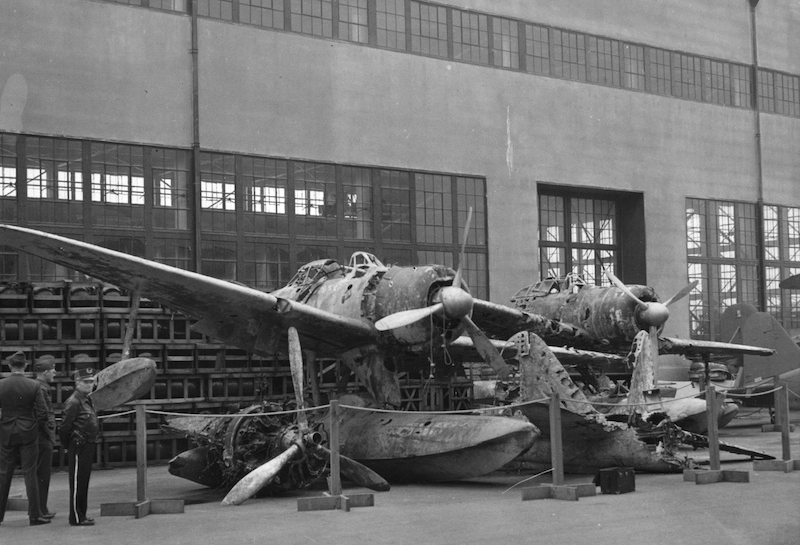 Wrecks of Japanese Nakajima A6M2-N "Rufe" seaplane fighters on display at the Naval Air Station Alameda, California (USA), in 1943.